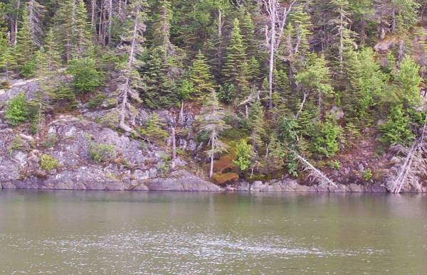 Old Woman River, Lake Superior Park, Ontario My own photo